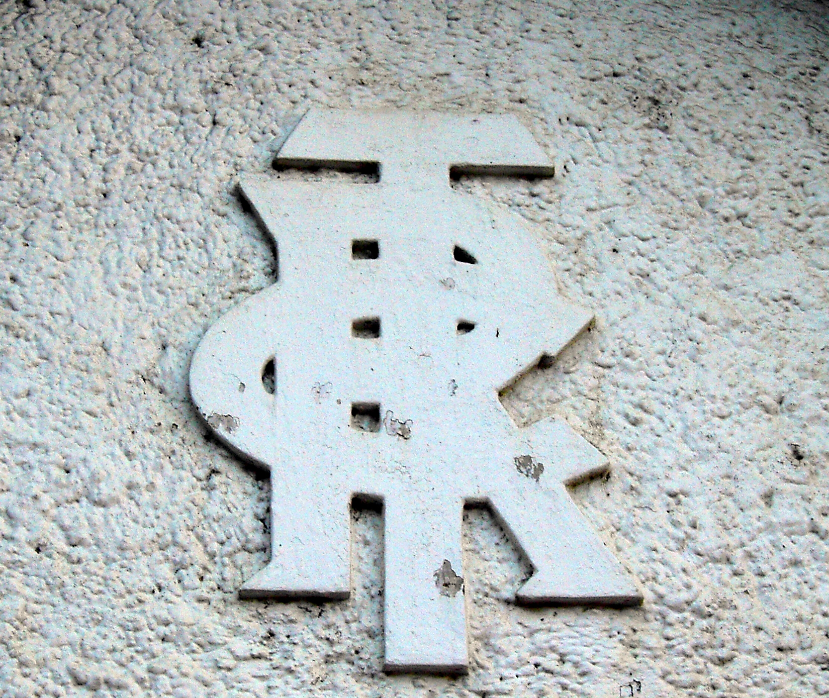 Logo Rio Tinto Company Limited